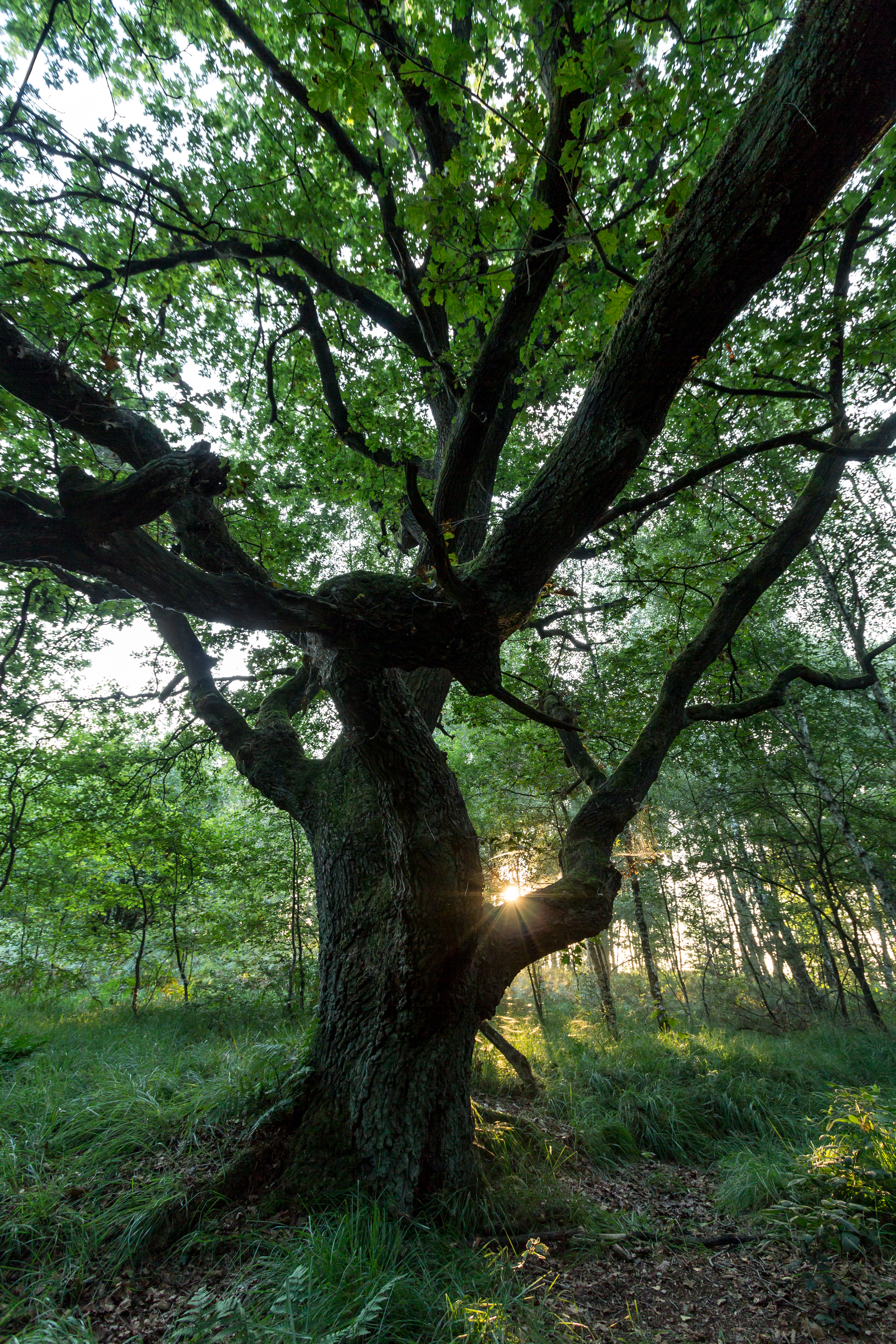 Oak (Quercus robur) in the nature reserve “Venner Moor” near Senden, North Rhine-Westphalia, Germany